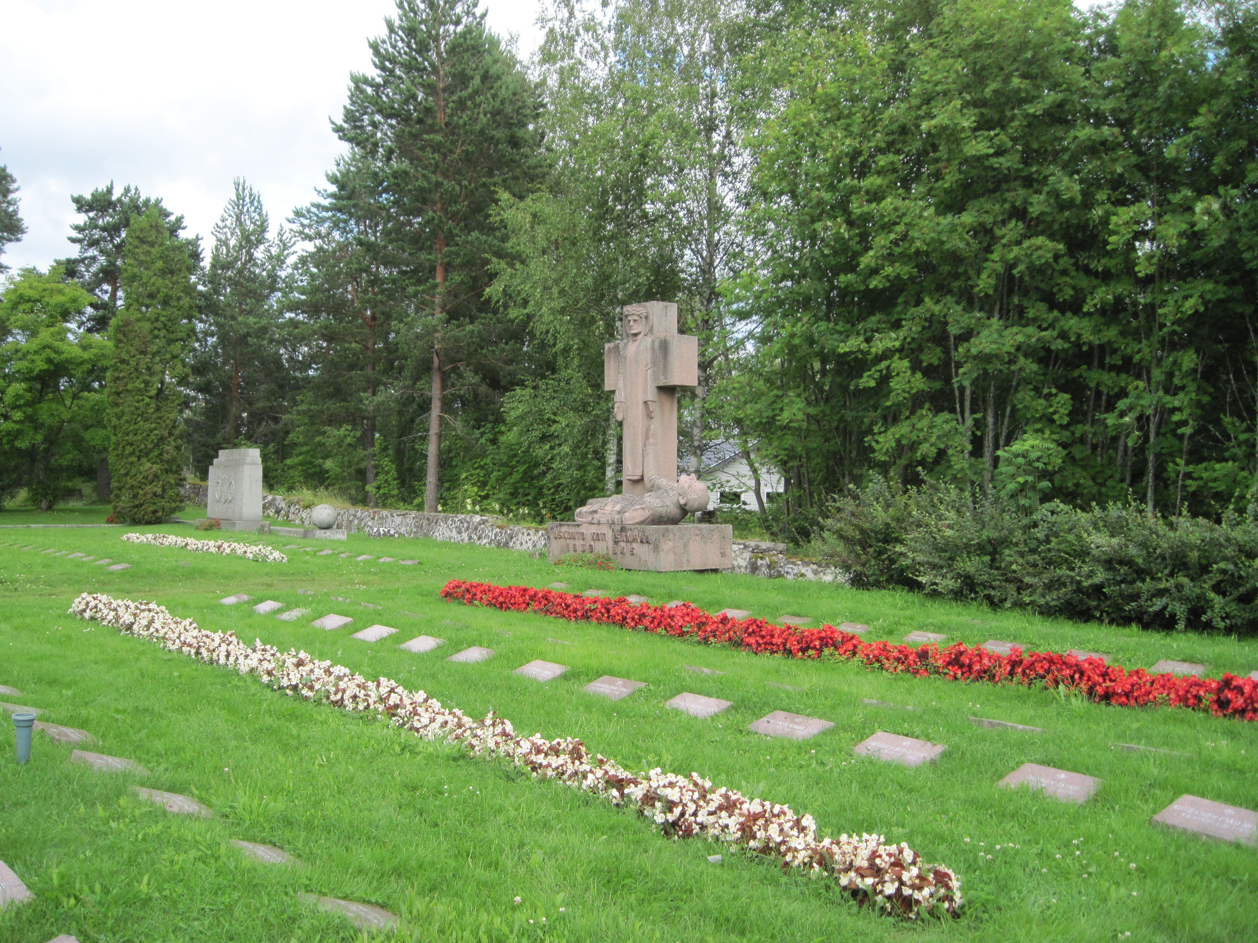 Military cemetary at church in Rääkkylä, Finland